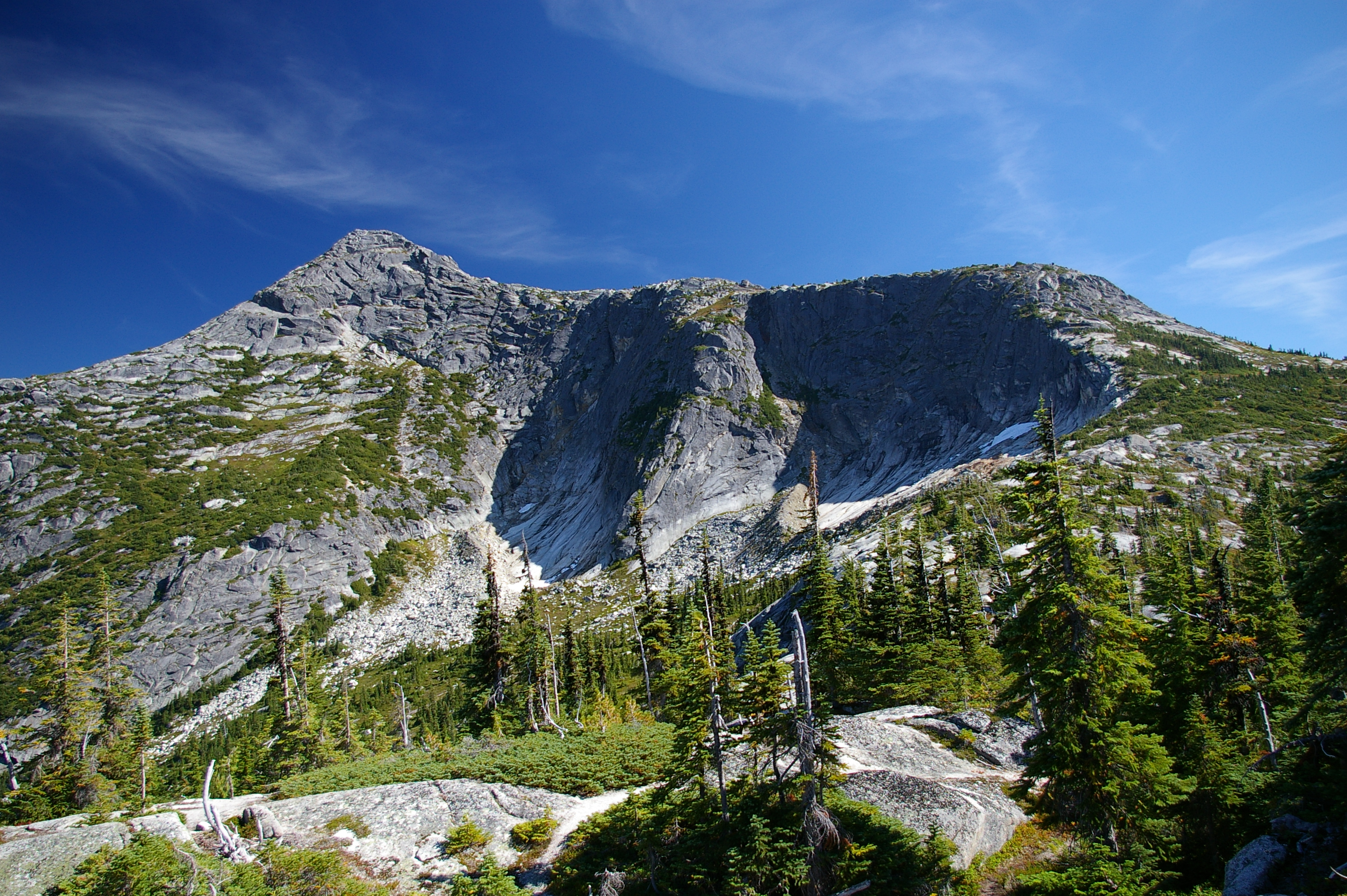 Needle Peak viewed from the North Needle Peak (Coquihalla, British Columbia, Canada)